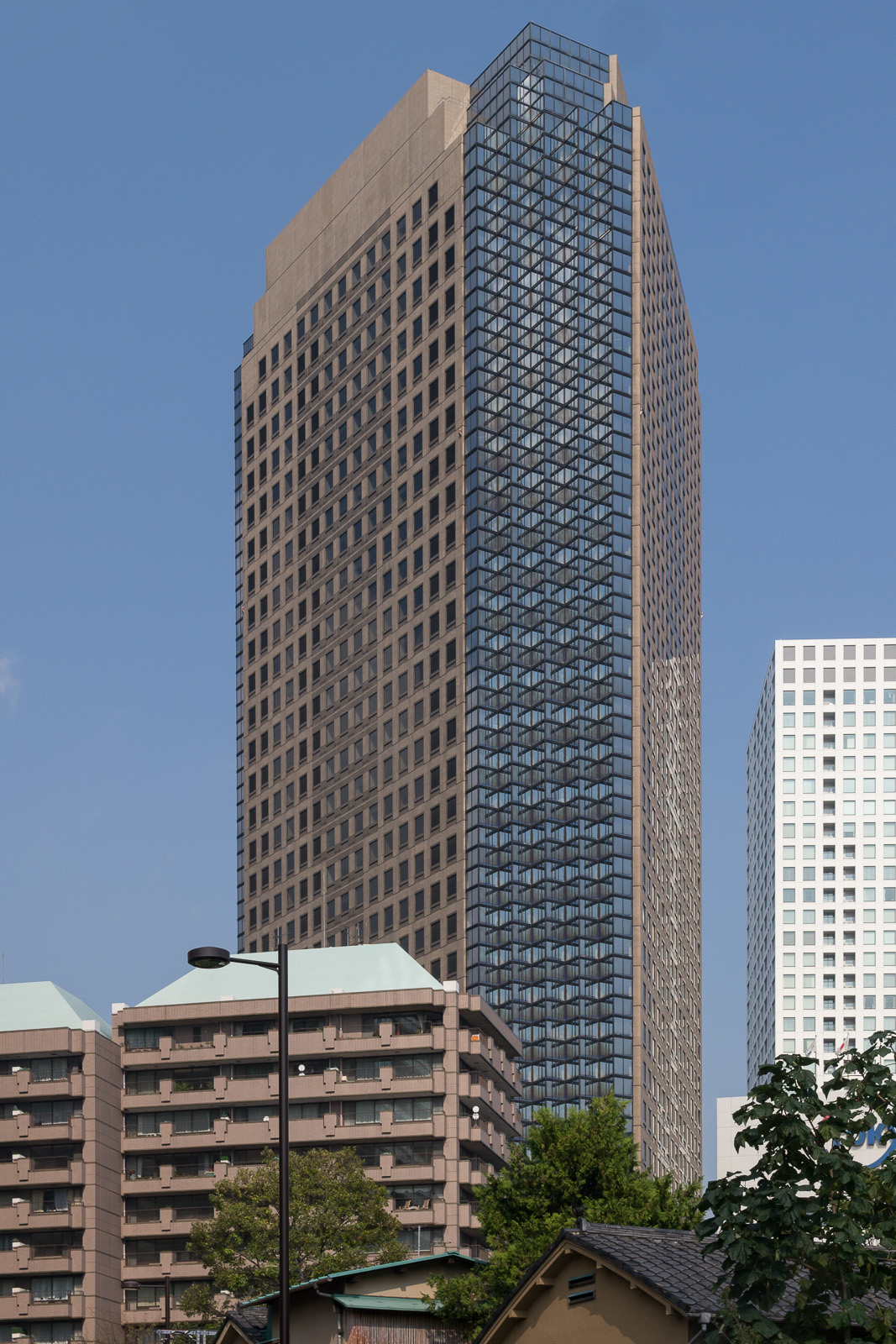 Shiroyama Trust Tower in Minato Ward, Tokyo, Japan